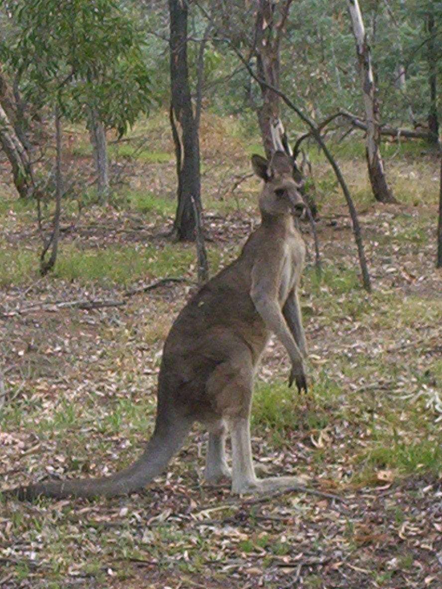 Category:Images of Canberra Kangaroo at Canberra nature park, between mount ainslie and mount majura, photo taken by me, 25 Jan 2005. Cfitzart 14:16, 24 August 2005 (UTC)